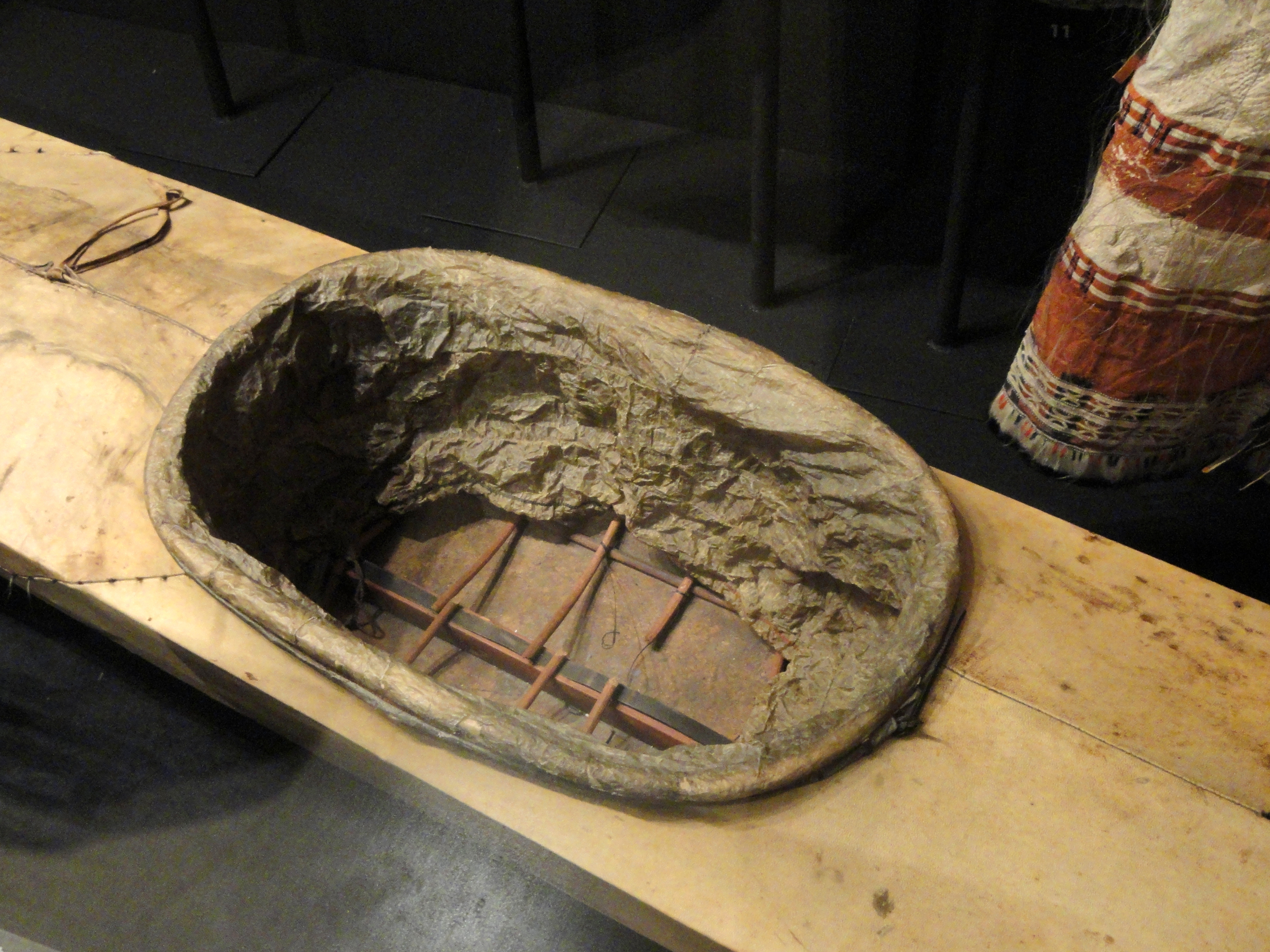 Exhibit in the Arvid Adolf Etholén collection, Museum of Cultures, Helsinki, Finland.